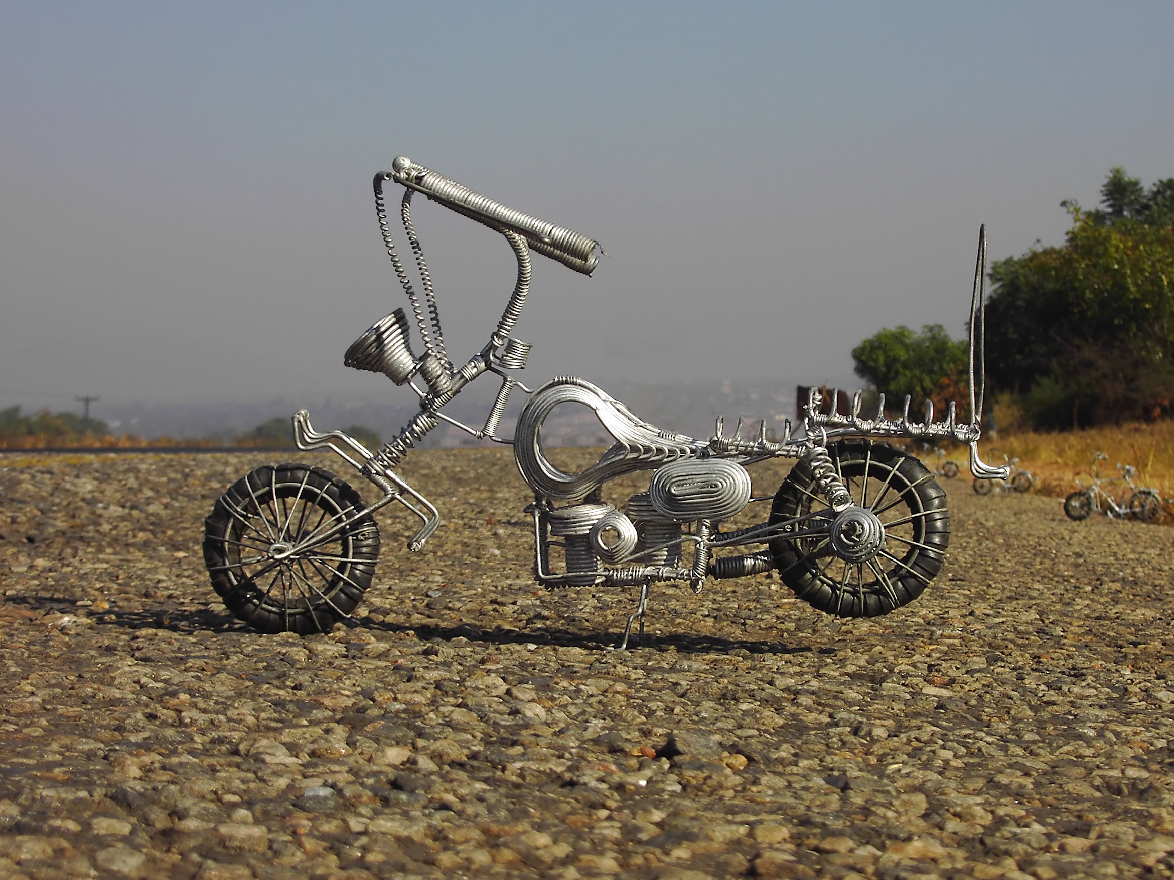 Bike sculpture made from recycled wire and tire tubes. Kitwe, Zambia. Length: about 30cm.